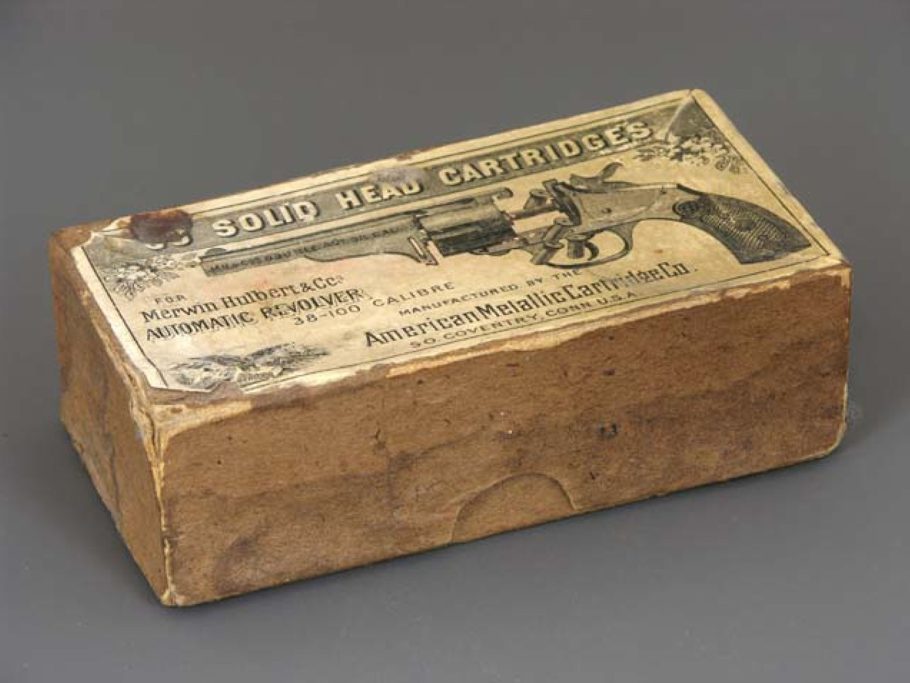 Box of ammunition from the America Metallic Cartridge Company first half of the 20th century.